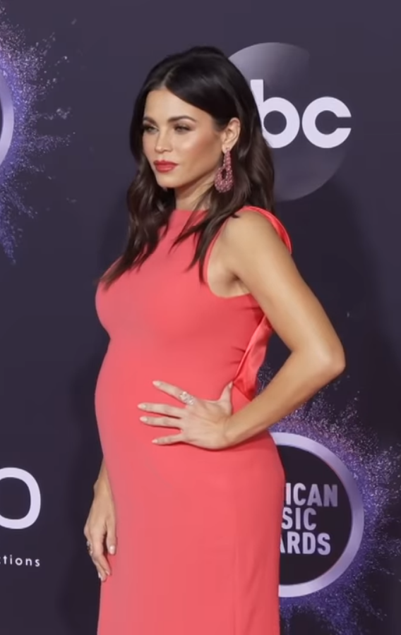 Jenna Dewan at the 2019 American Music Awards red carpet